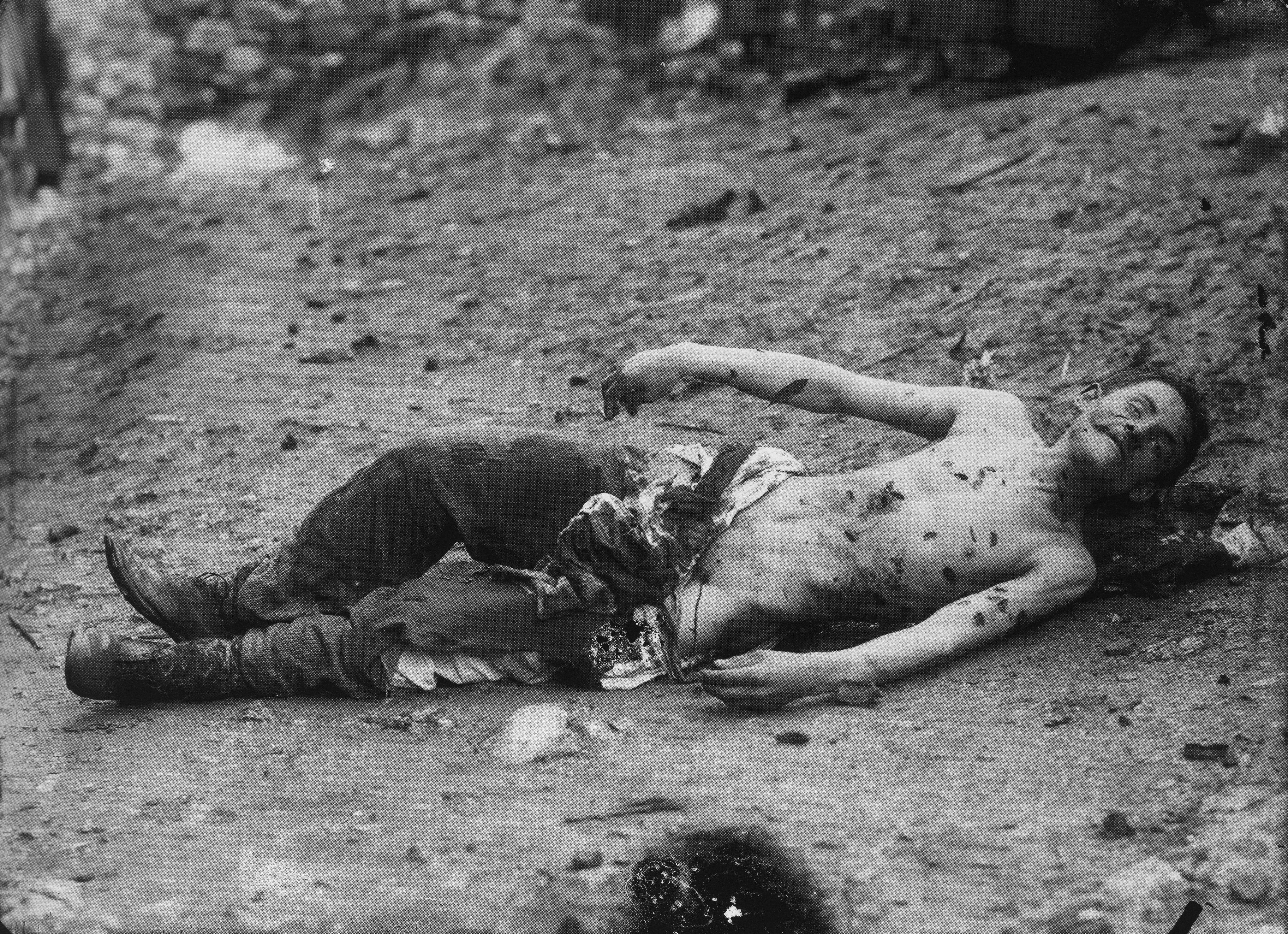 The dead body of Vassilios Maleganos, Kastoria born Greek teacher in the village of Setoma (today Kefalari, Greece), killed by Bulgarians.